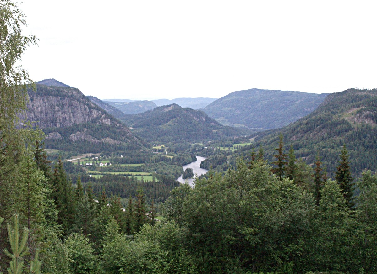 View over Begnadalen from the road to Hedalen